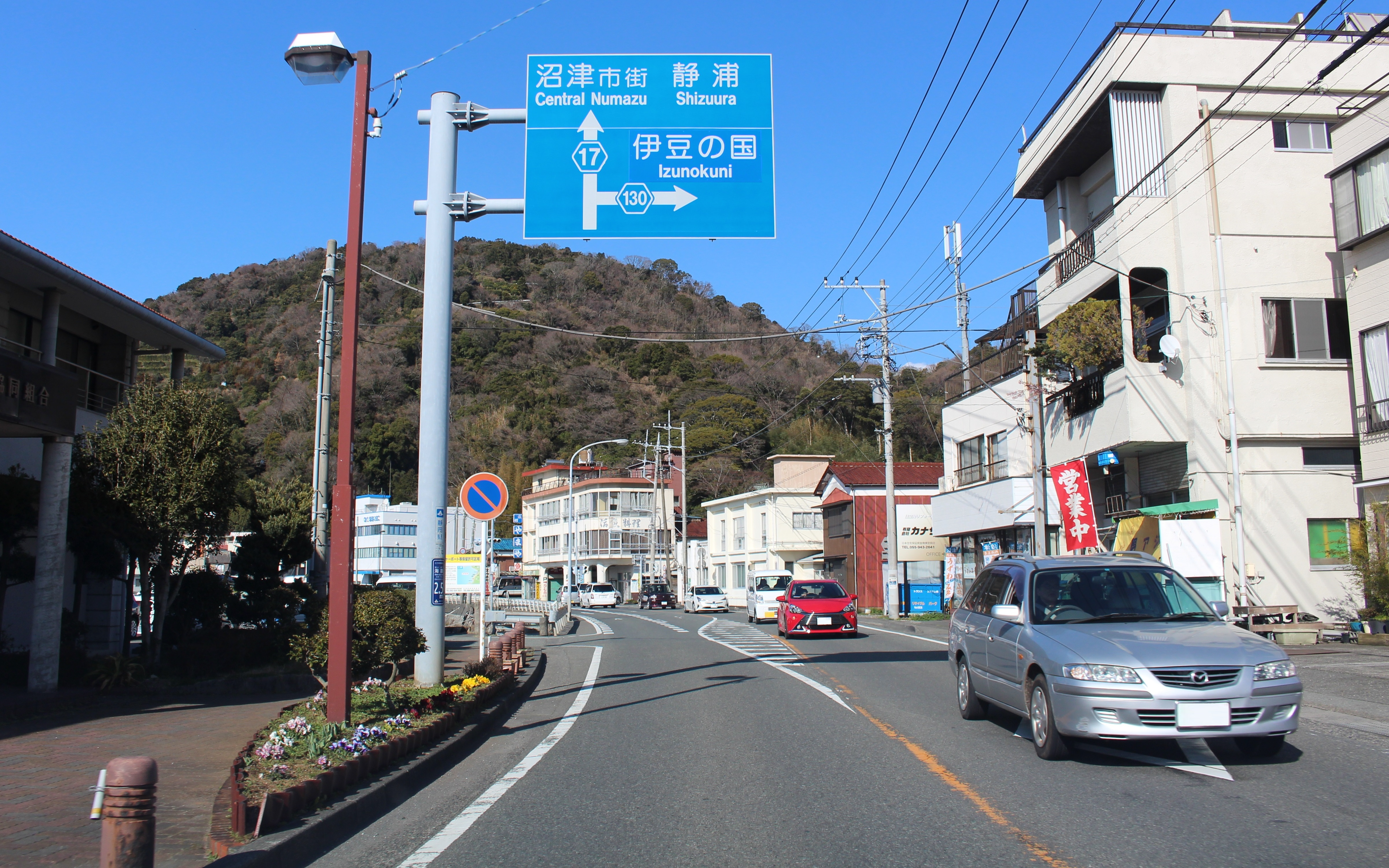 Shizuoka Prefectural Road Route 17 in Ita, Numazu, Shizuoka Prefecture, Japan.